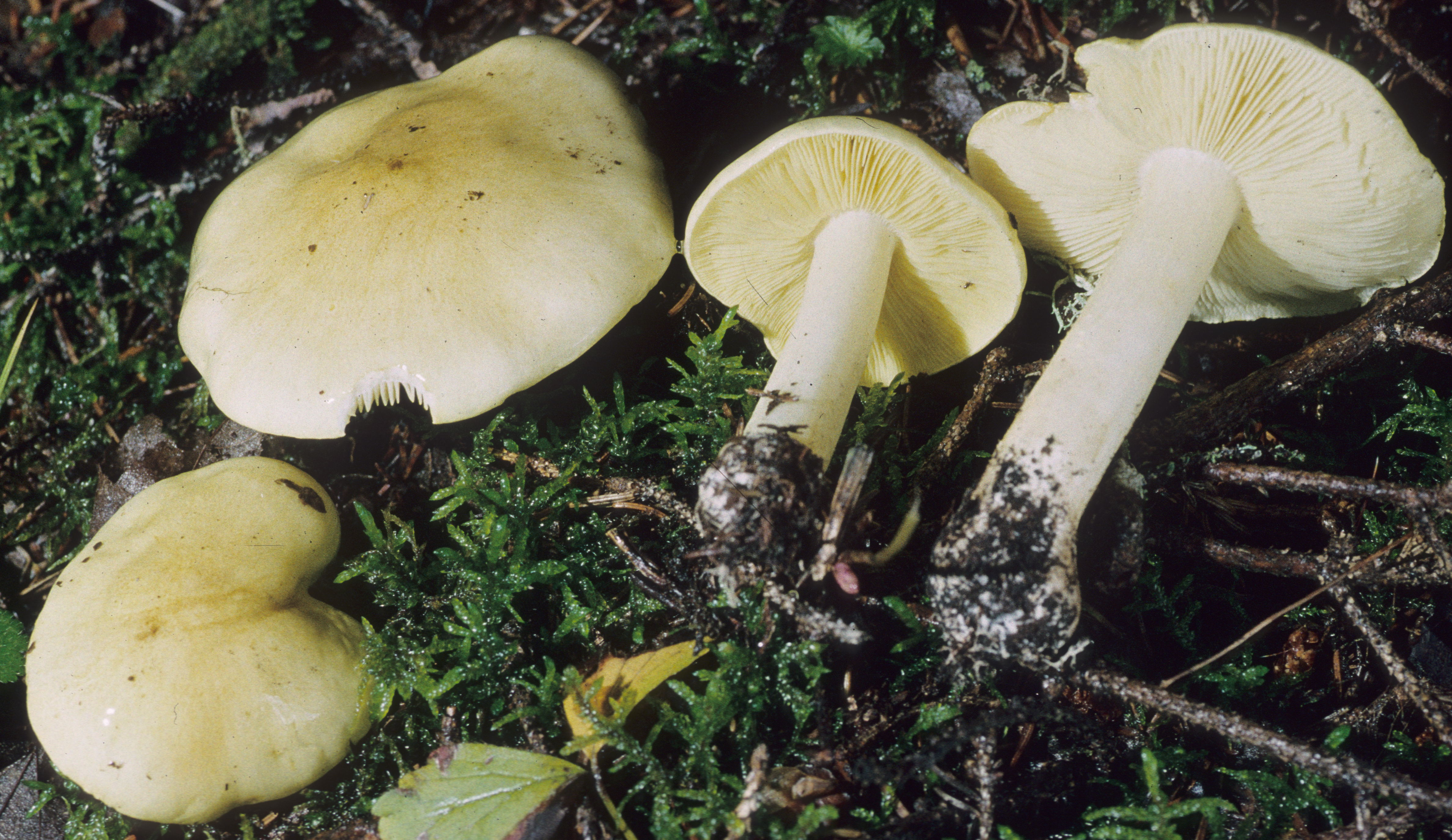 Fruit bodies of the agaric fungus Tricholoma intermedium Peck. Photographed in Algonquin Park, Ontario, Canada.